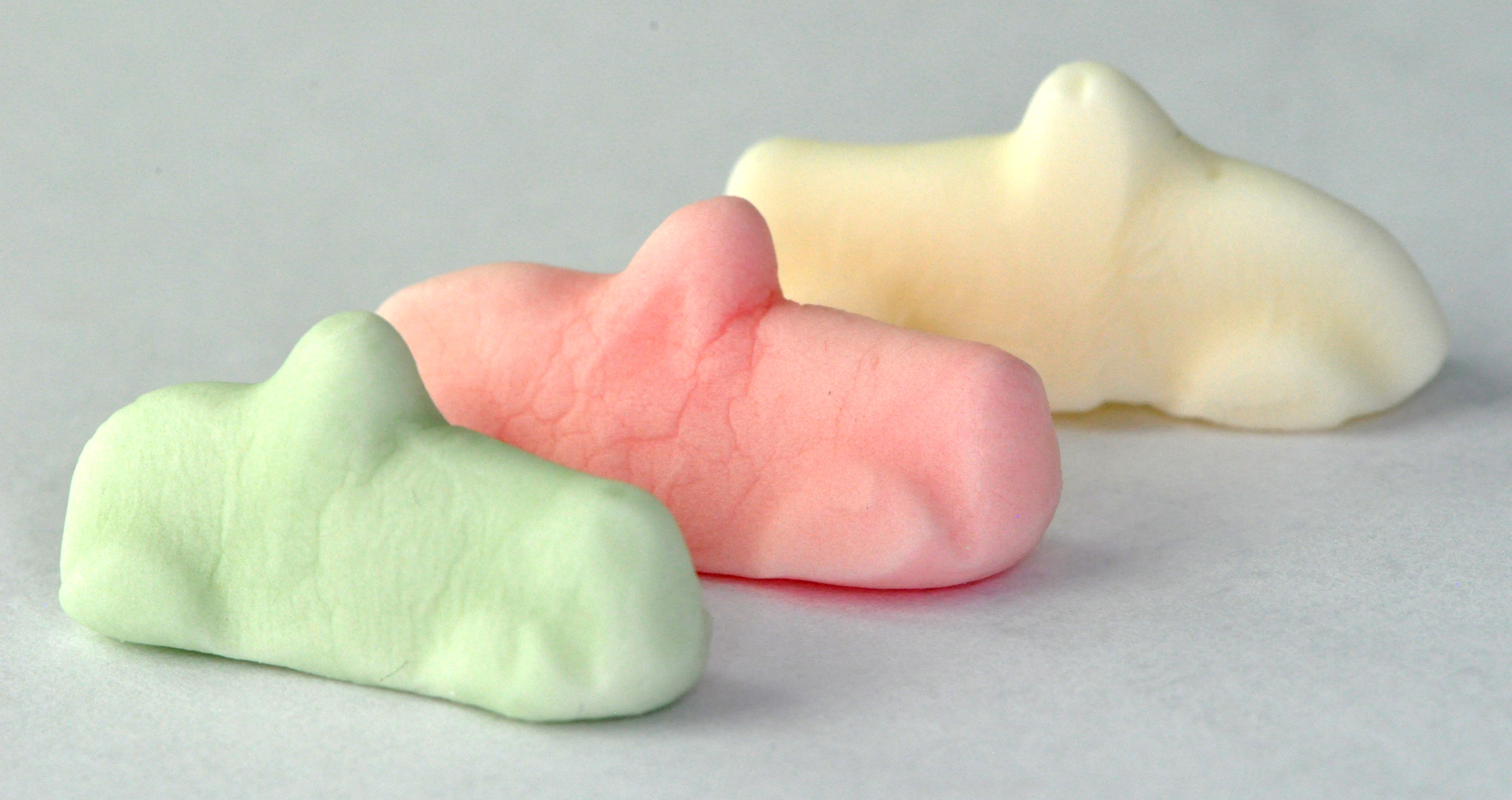 "Ahlgrens bilar", Swedish candy